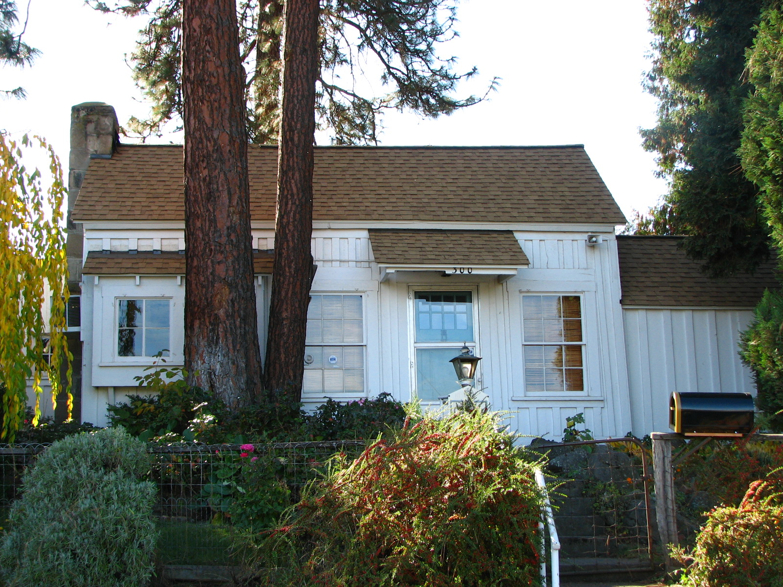 The historic Malcolm A. Moody House (also known as the Rorick House, built ca. 1850), located at 300 West 13th Street in The Dalles, Oregon, United States, is listed on the US National Register of Historic Places.